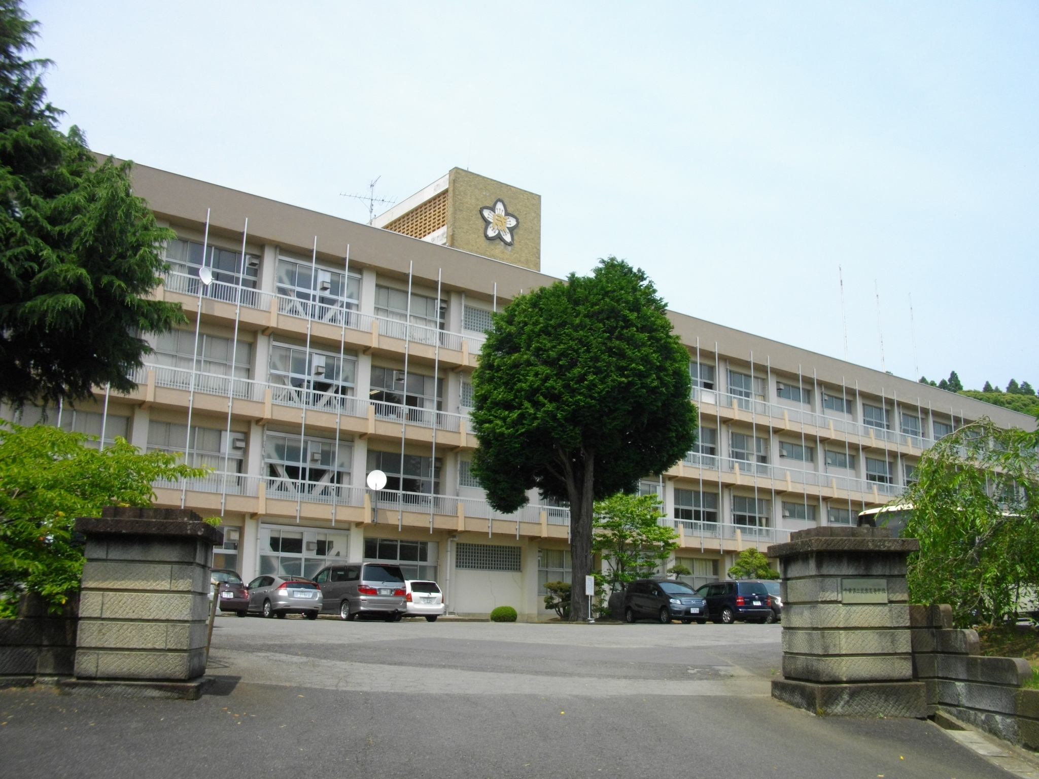 Narutou High School